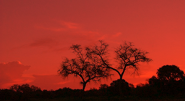 Dusk at Manyuchi